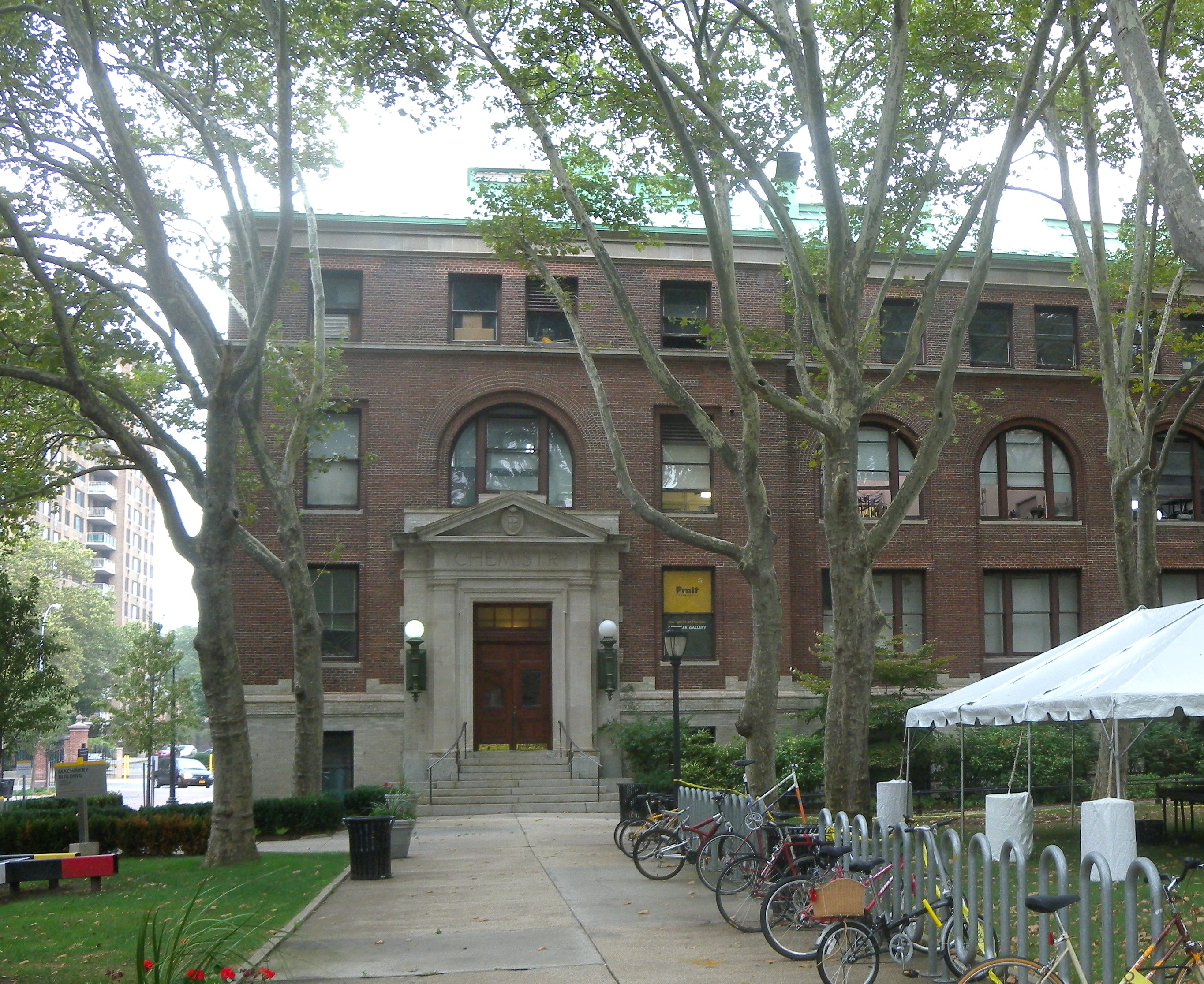 Looking east at Chemistry Building on a rainy midday.